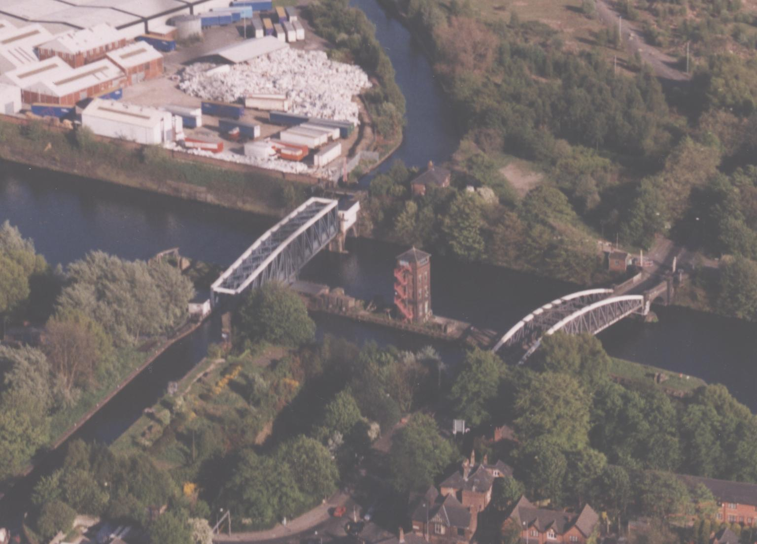 Barton-on-Irwell showing the two swing bridges over the Manchester Ship Canal.